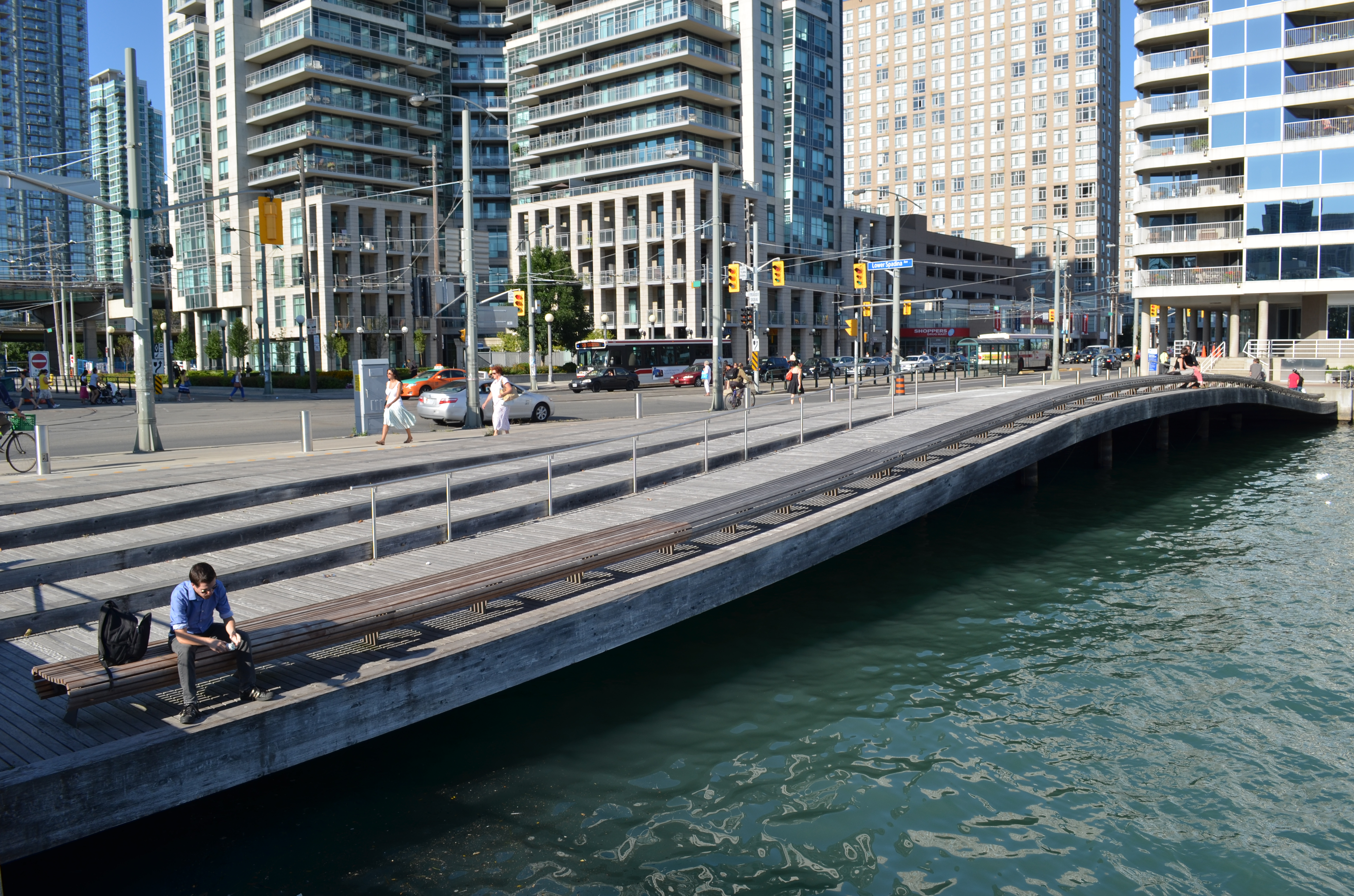 Lower Spadina Avenue, Spadina Wave Deck